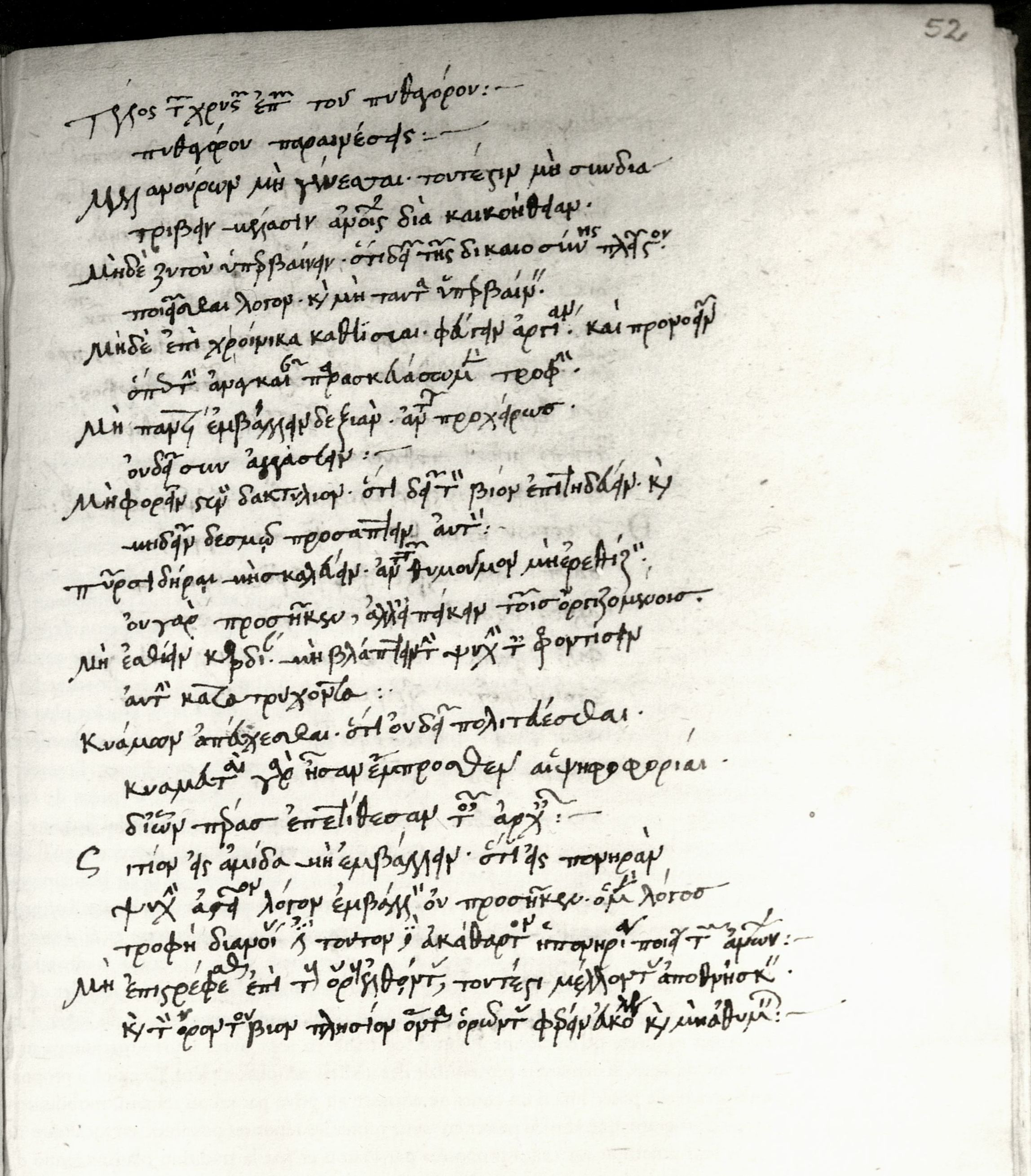 A manuscript of the so-called “Golden verses of Pythagoras”. Text written at Brescia by Angelo Claretti da Brecia, an Italian humanist. Cologny (Switzerland), Fondation Martin Bodmer, MS Bodmer 5, fol. 52r.